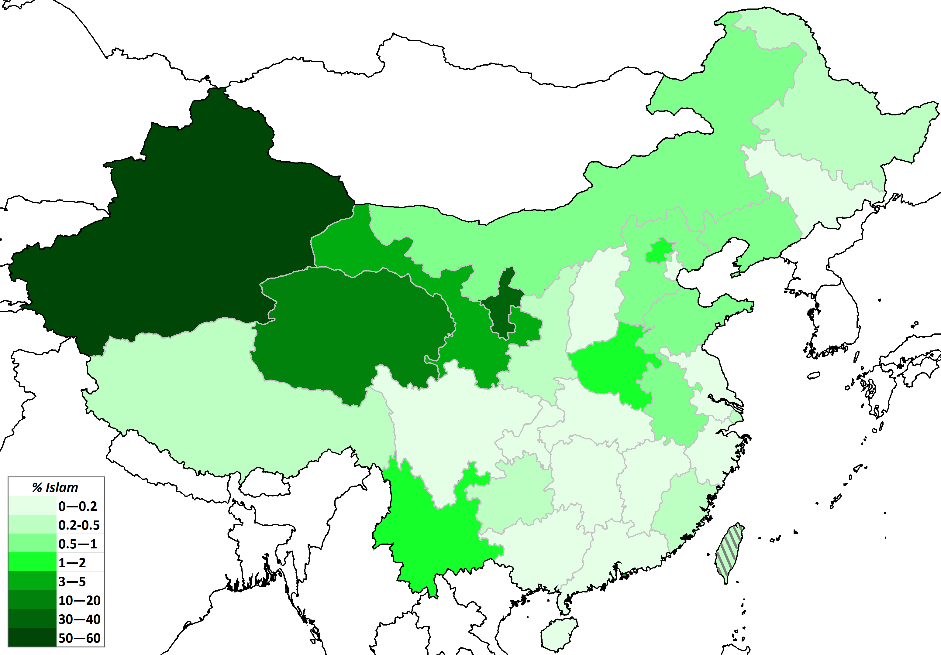 Distribution of Muslims in China in 2010, by province, according to Min Junqing's The Present Situation and Characteristics of Contemporary Islam in China, JISMOR n. 8, 2010 (p. 29). Data from Yang Zongde's Study on Current Muslim Population in China, Jinan Muslim n. 2, 2010.